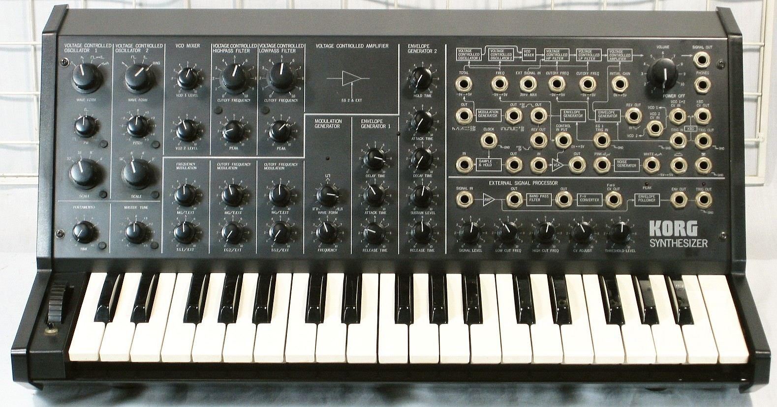 Korg MS-20 patchable semi-modular monophonic synthesizer